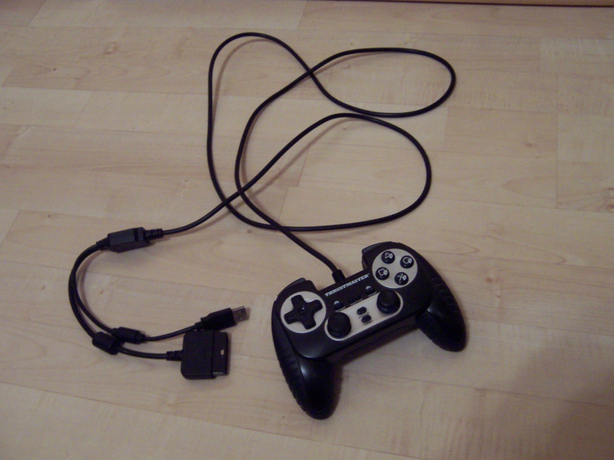 The Thrustmaster 2 in 1 Dual Trigger for PC and PS2